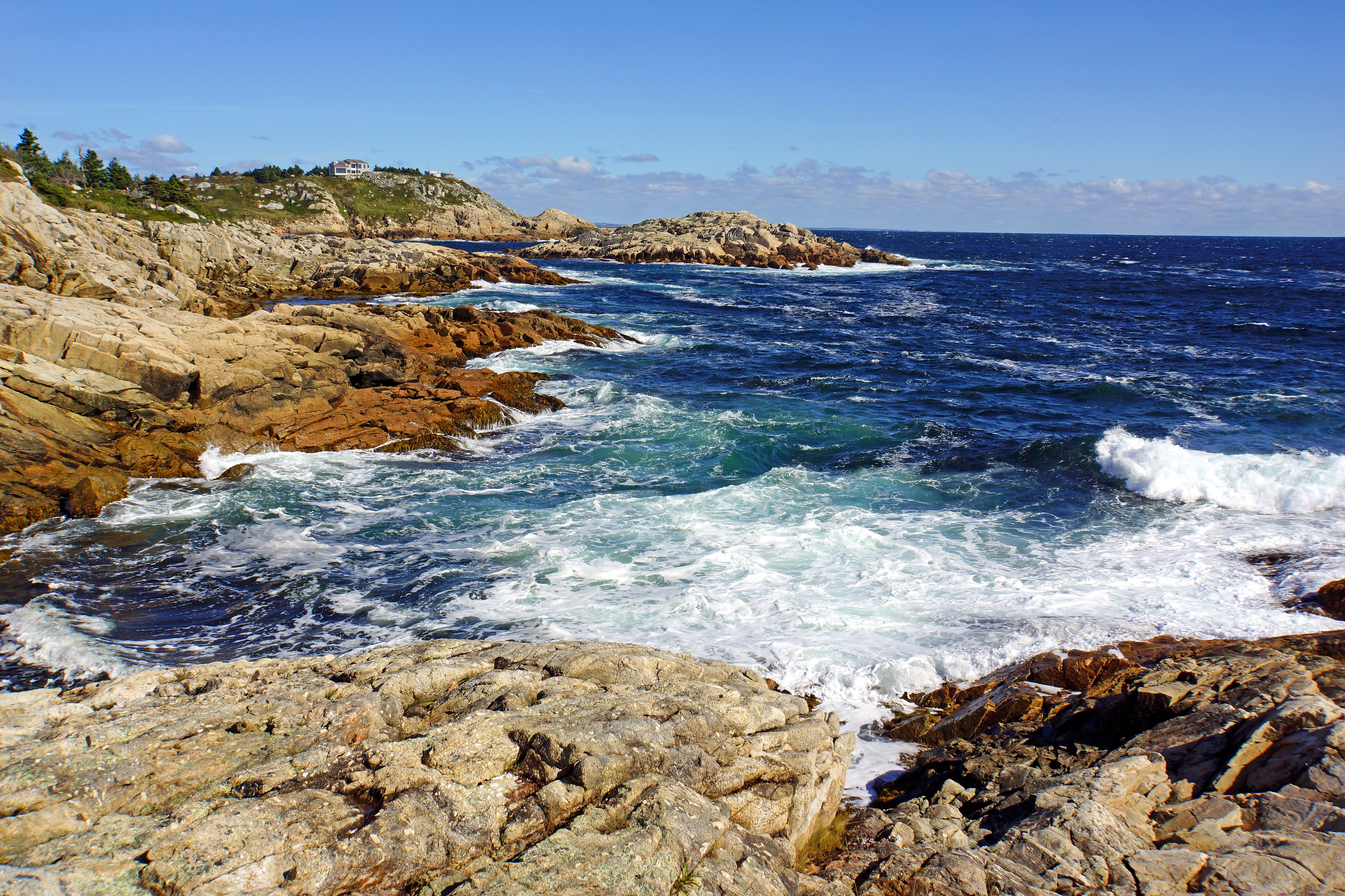 PLEASE, NO invitations or self promotions, THEY WILL BE DELETED. My photos are FREE to use, just give me credit and it would be nice if you let me know, thanks. It was a beautiful day for a hike along the rugged coastline.